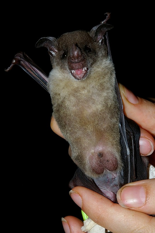 Pale spear-nosed bat, Phyllostomus discolor, picture taken in La Selva, Costa Rica